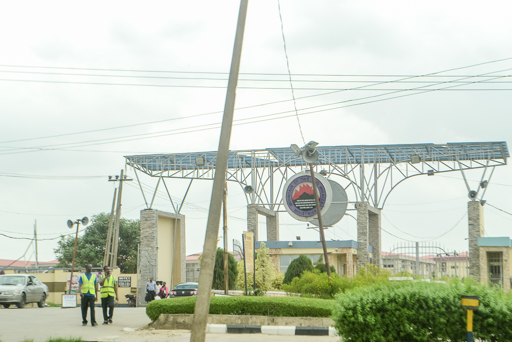 Mountain of Fire Ministry Main Entrance